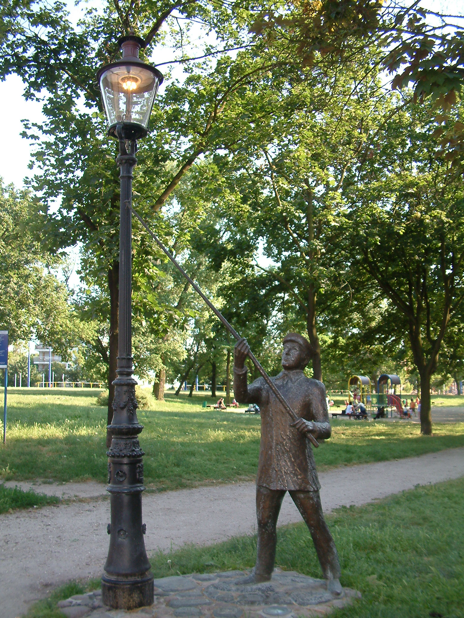 Monument of Gas-worker in Poznań